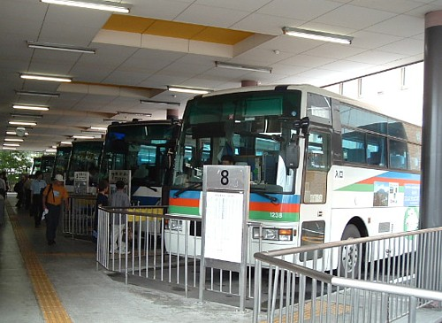 Seibu Kogen Bus cars at Kusatsu Onsen Bus Terminal in Kusatsu Town, Gunma Prefecture, Japan